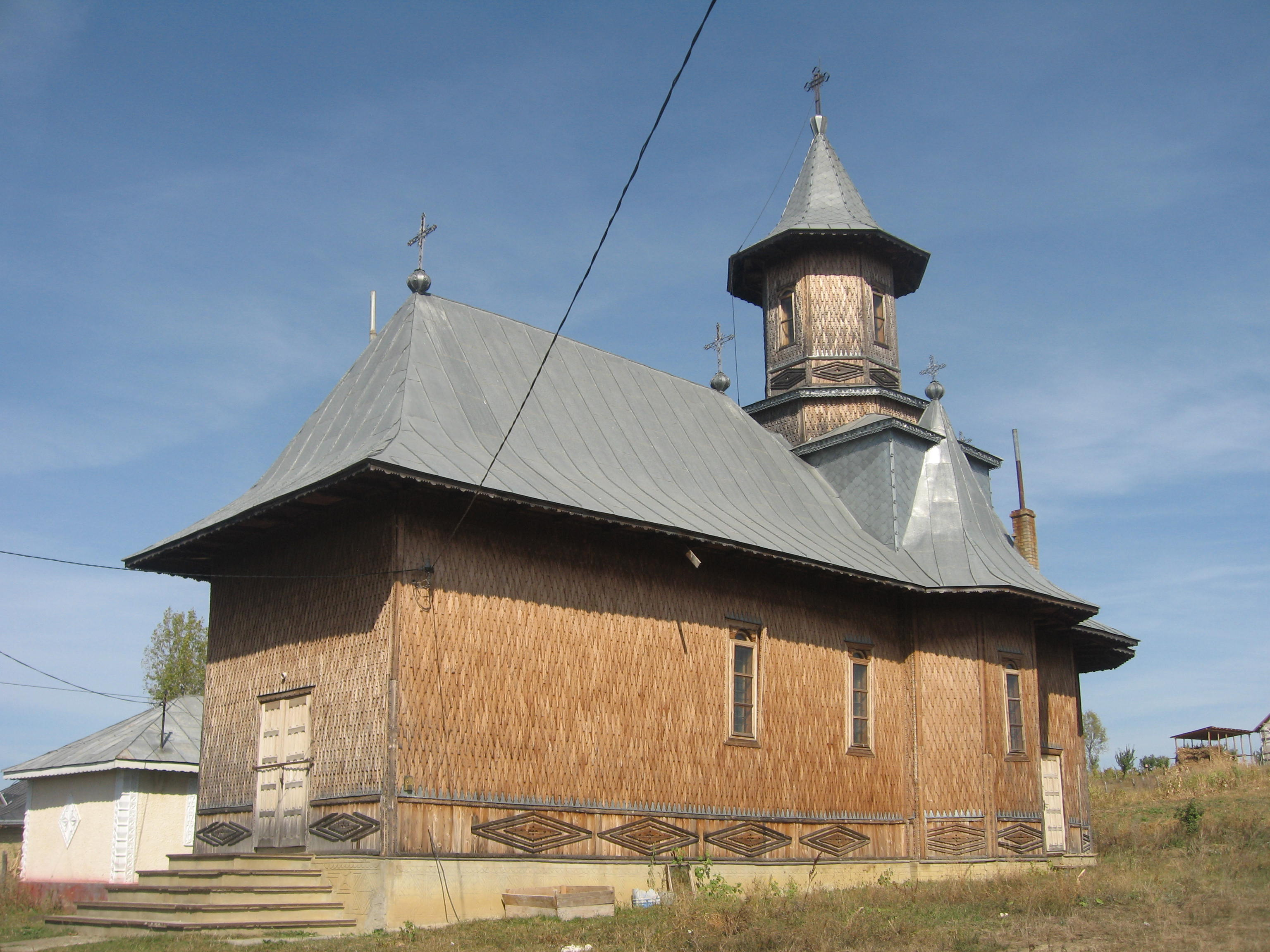 Biserica de lemn din Obrijeni